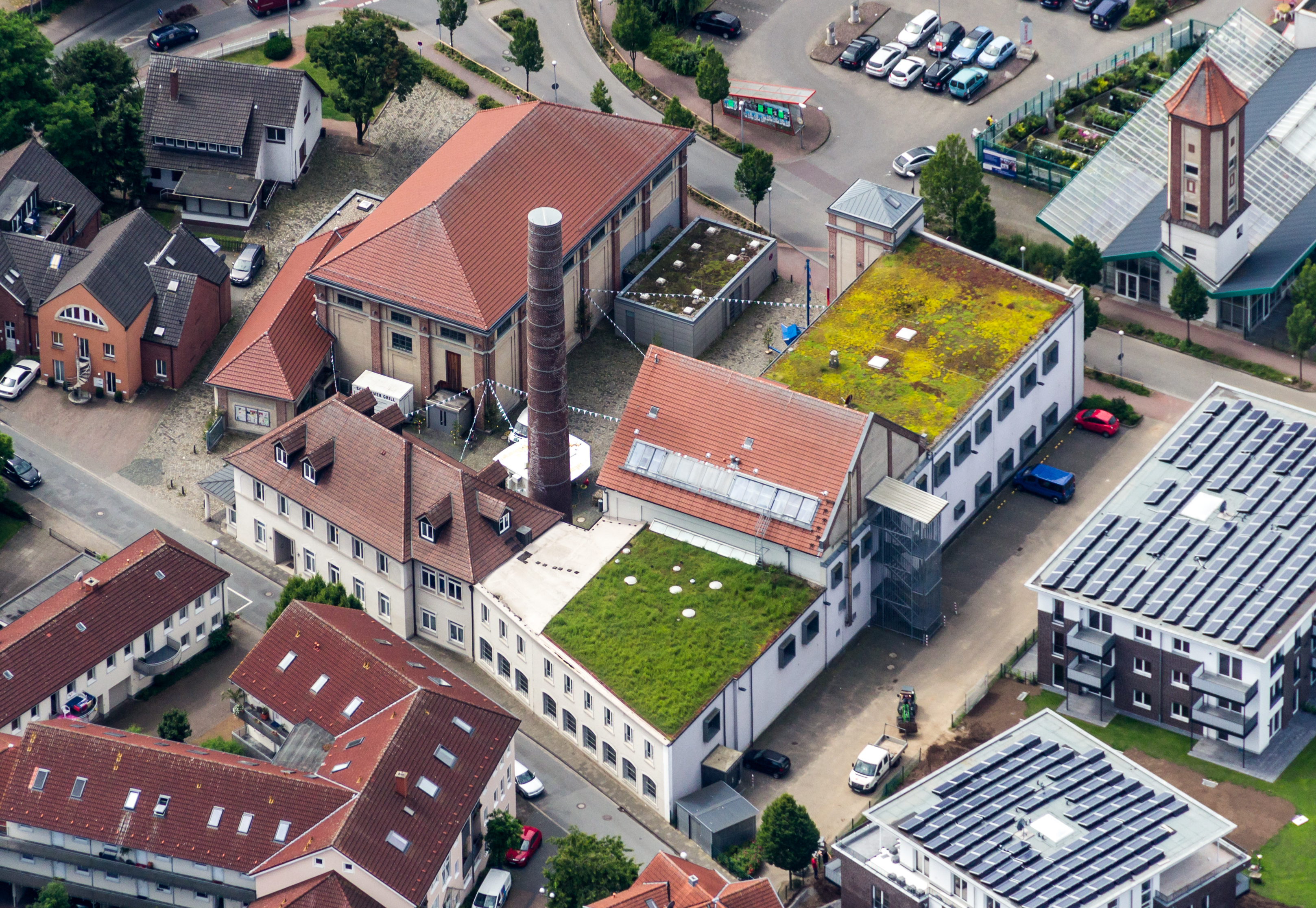 Kesselhaus and Ballenlager, Greven, North Rhine-Westphalia, Germany